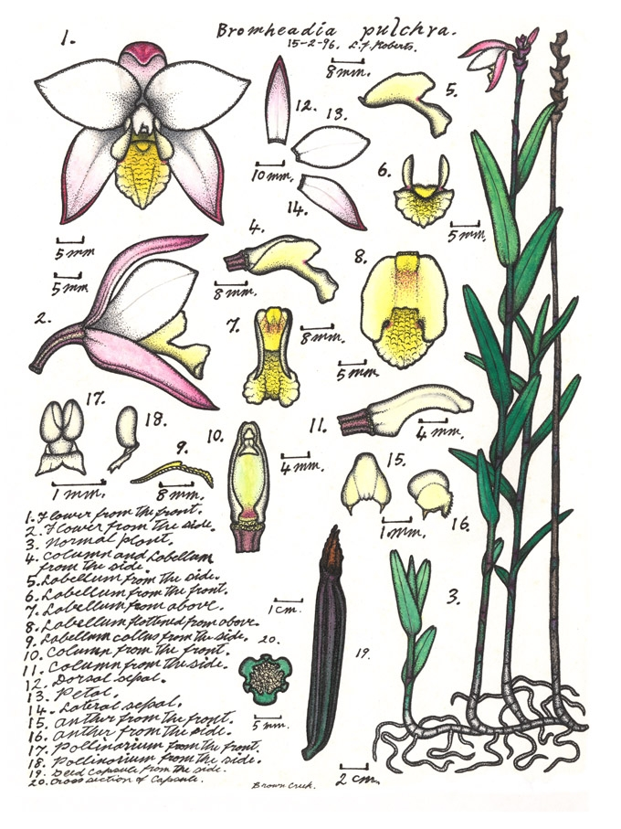 Copy of one of a major collection of botanical illustrations of the orchids on north-eastern Queensland by Lewis Roberts. John E. Hill (talk) 08:07, 1 June 2009 (UTC)